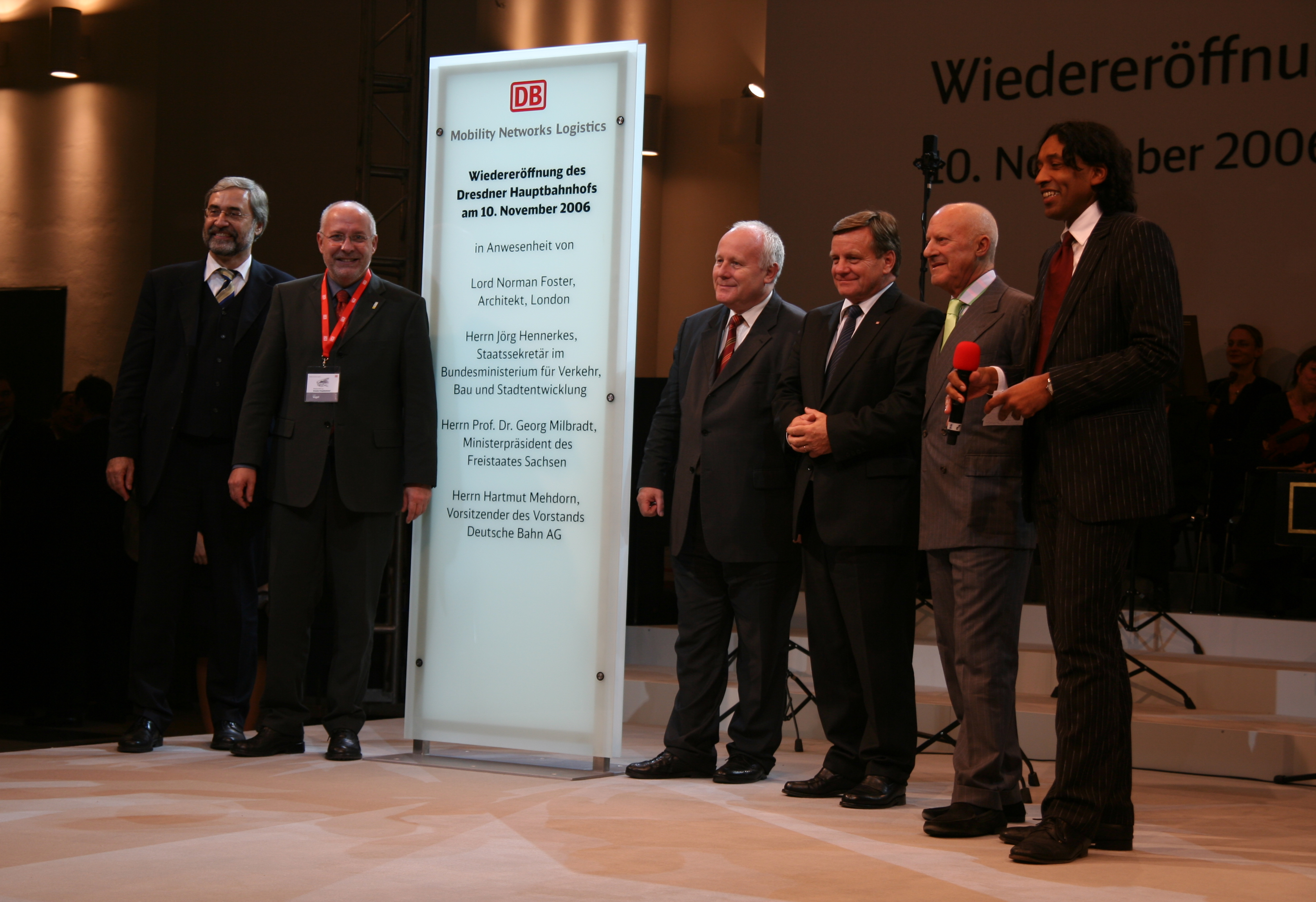 Revealing of a plate during the inauguration ceremony of Dresden's renovated main railway station Personen/Persons: Jörg Hennerkes – Lutz Vogel – Georg Milbradt – Hartmut Mehdorn – Sir Norman Foster – Cherno Jobatey